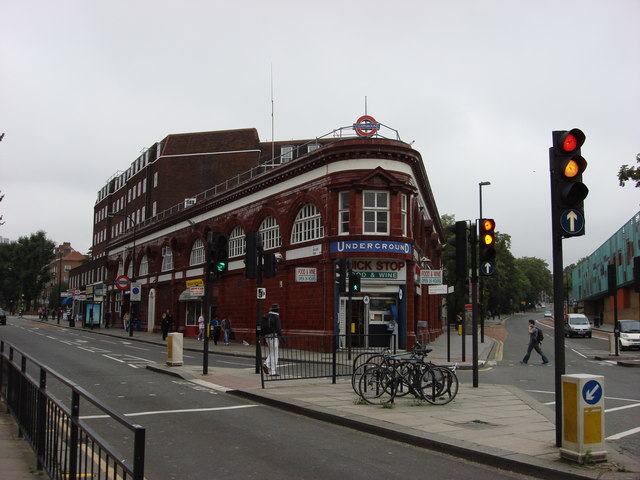 Chalk Farm tube station Opened on 22 June 1907 by the Charing Cross, Euston & Hampstead Railway.The station is on the Edgware branch of the Northern Line, between Camden Town and Belsize Park stations, and in Travelcard Zone 2. The station is located at the junction of Chalk Farm Road, Haverstock Hill and Adelaide Road.